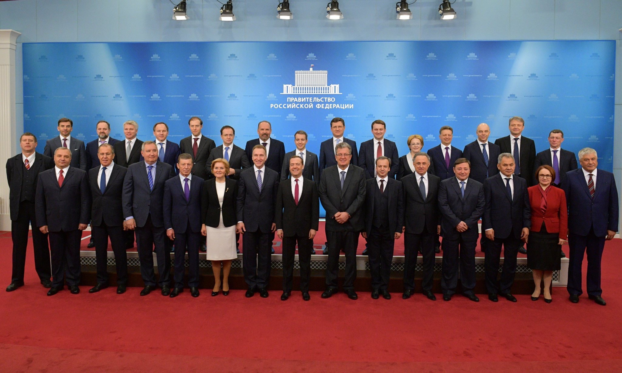 Family photo of members of Dmitry Medvedev’s First Cabinet